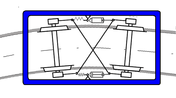 "Mechatronic" bogie with computer-controlled radial steering through actuators. Lateral suspension is not mentioned. Picture based on